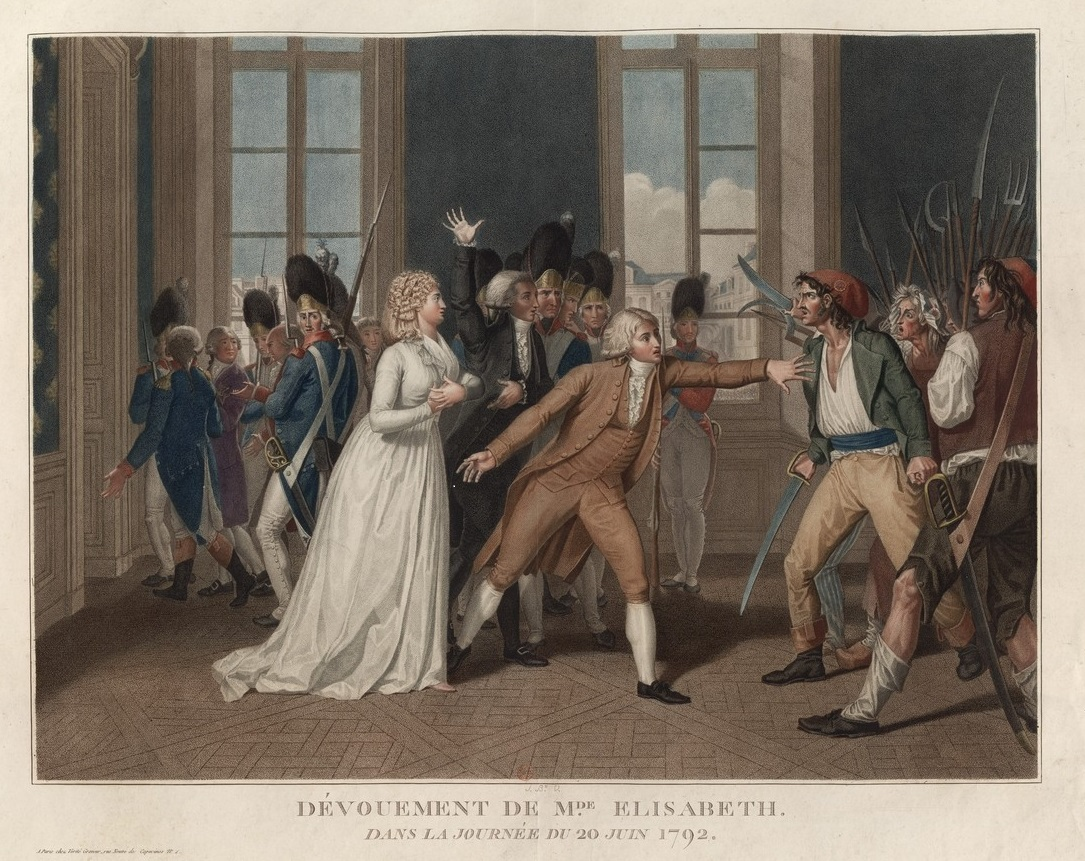 Engraved of Madame Elisabeth during the events of june 20, 1792